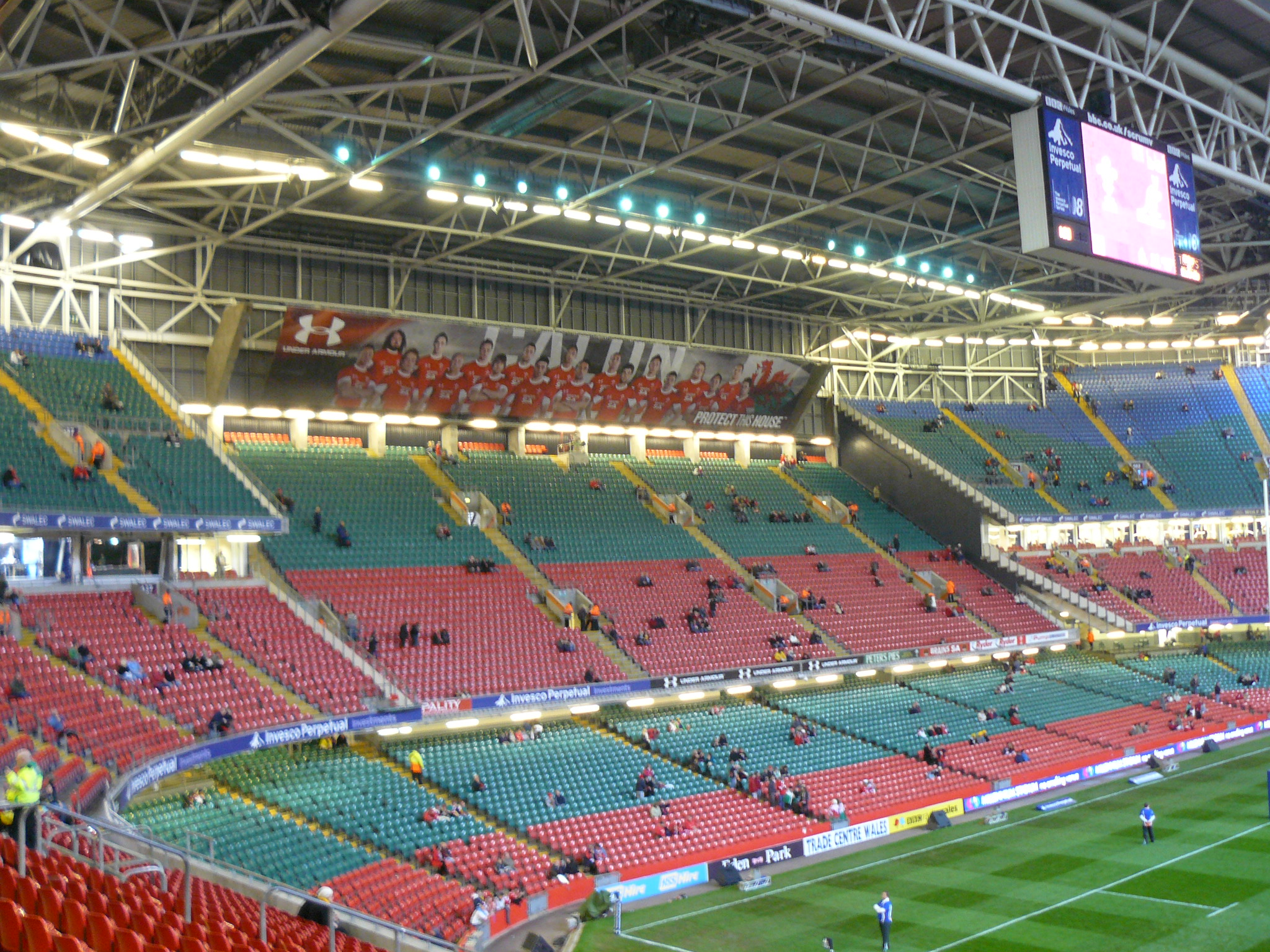 Glanmor's Gap, Millennium Stadium, Cardiff, Wales